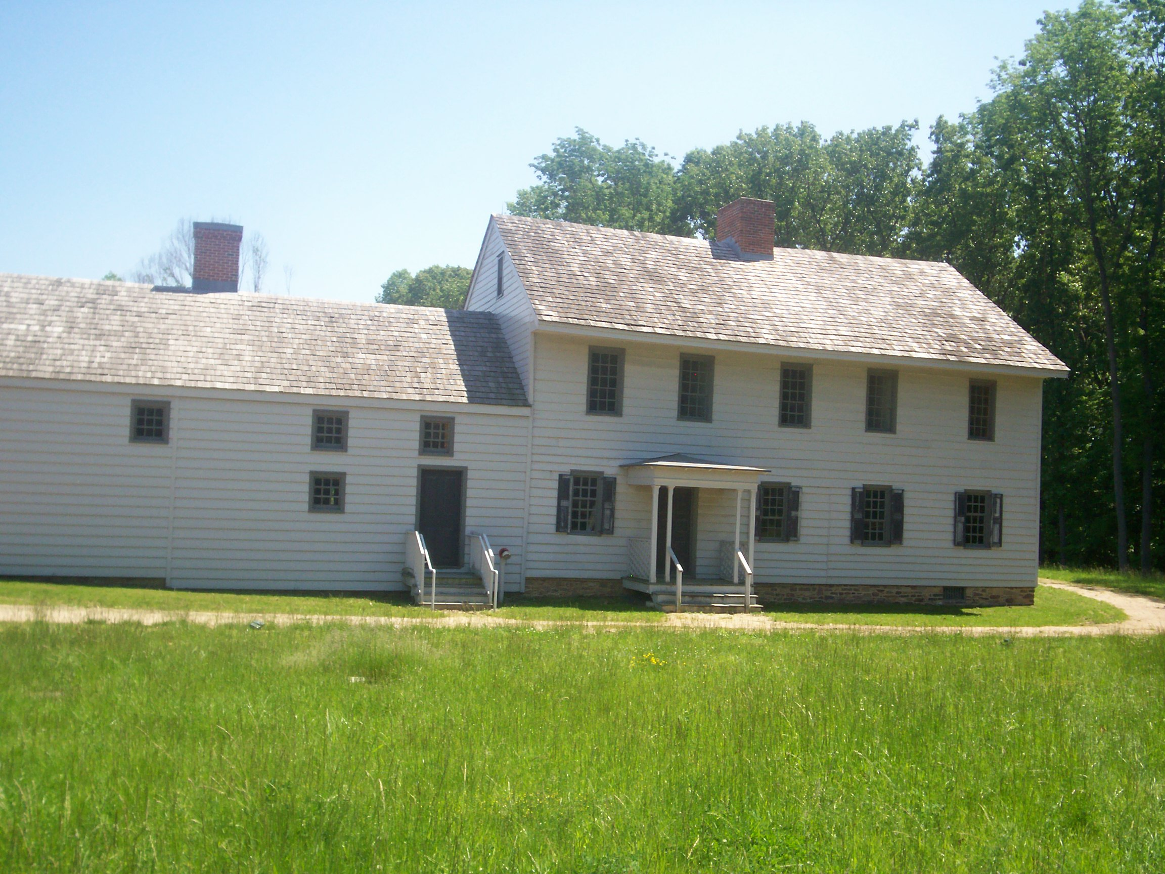 Rockingham